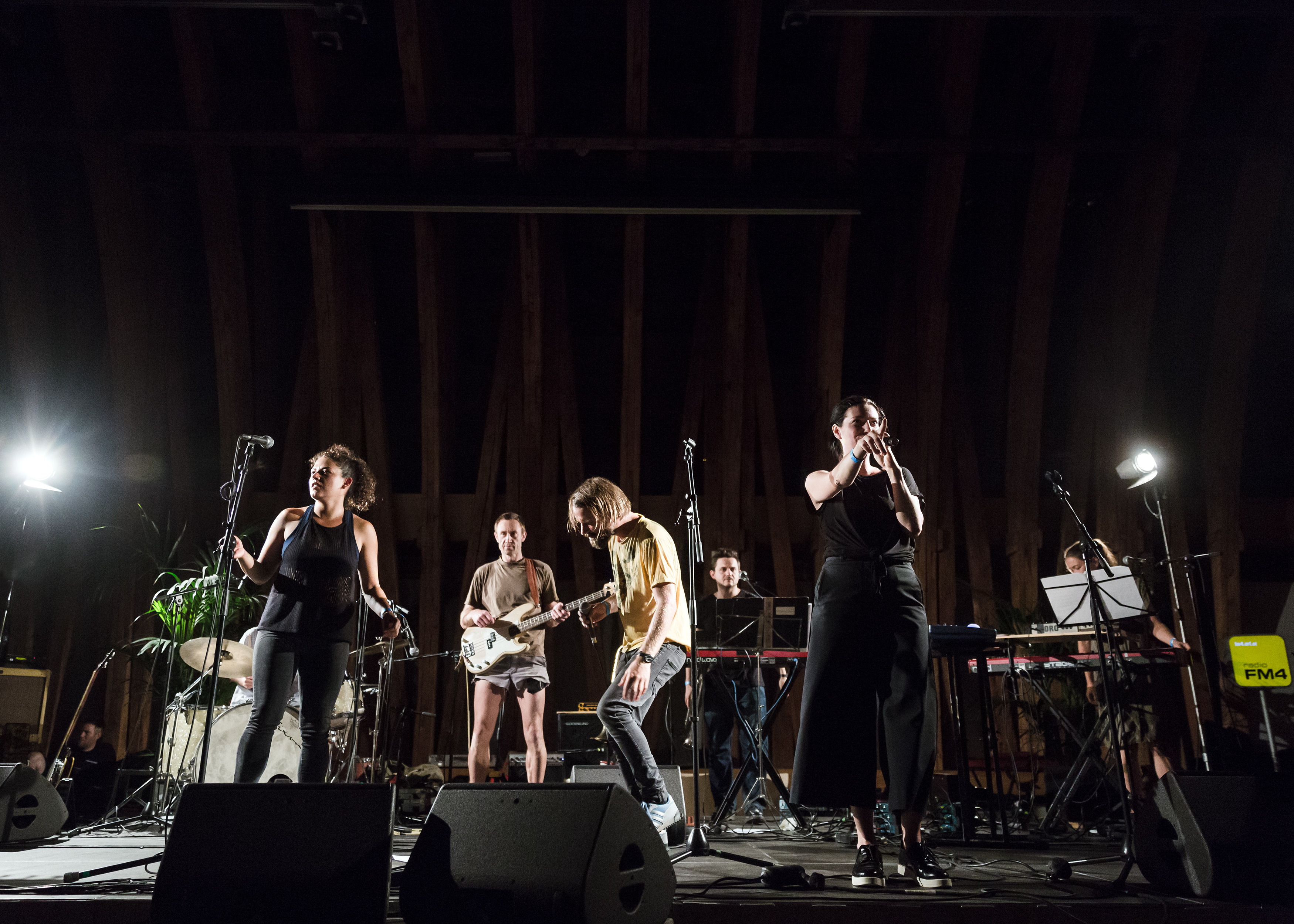 Gustav und die Proloband, concert performance of the newly arranged Proletenpassion at Popfest 2017 in Vienna, Austria.